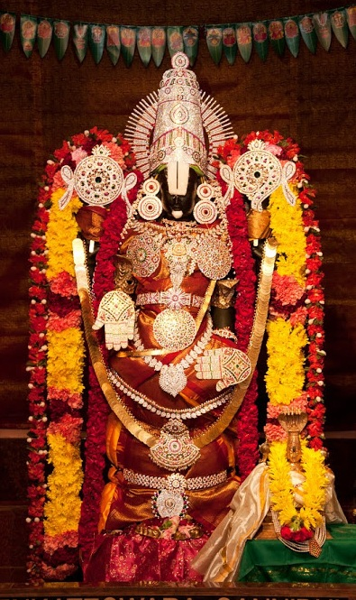 This is a picture taken at Parashakthi Temple during Lord's Anniversary celebrations